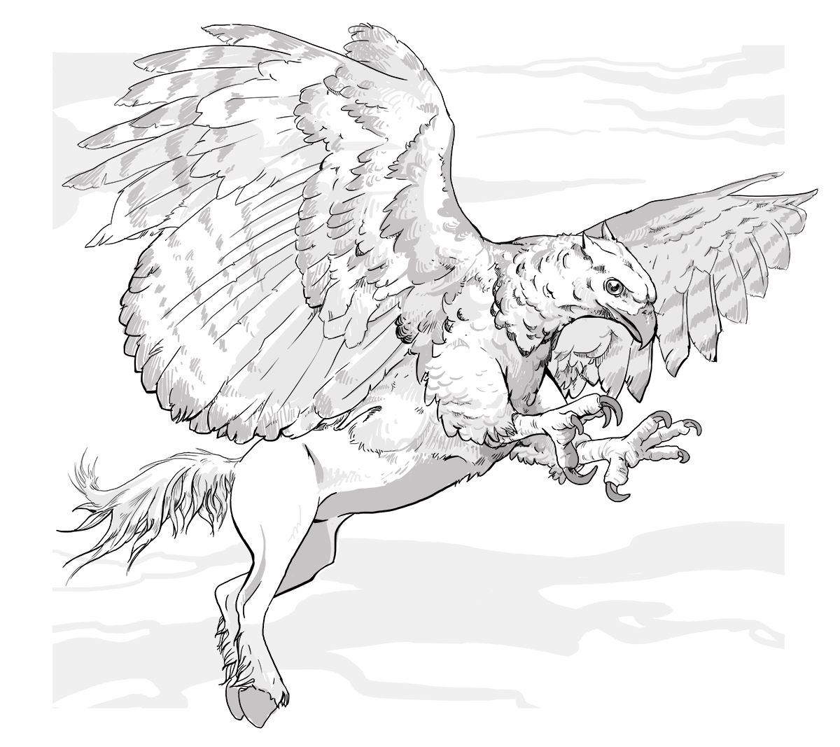 The hippogriff, or sometimes hippogryph is a legendary creature which has the front half of an eagle and the hind half of a horse.